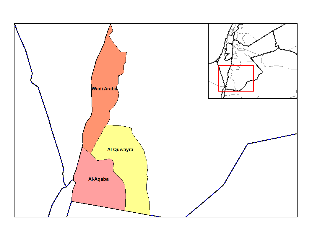 Map of the nahias of Aqaba governorate in Jordan. Created by Rarelibra 21:01, 27 December 2006 (UTC) for public domain use, using MapInfo Professional v8.5 and various mapping resources.